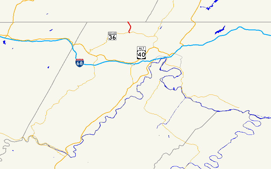 Map of MD Route 47